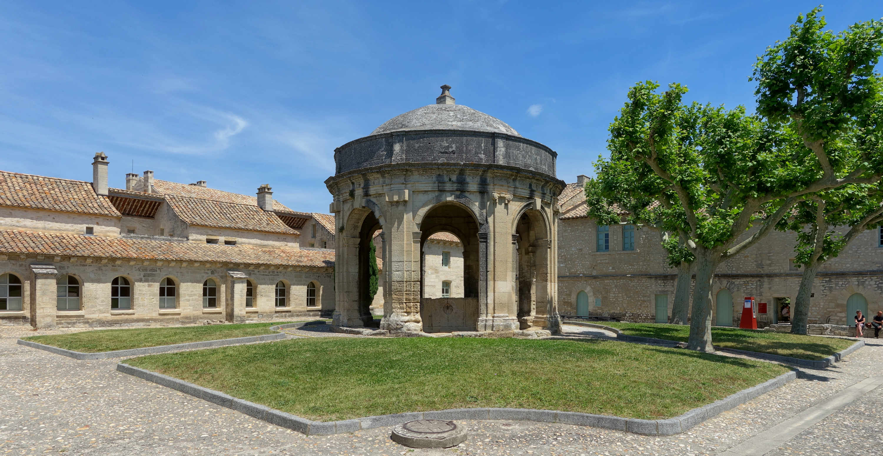 St John cloister in the Val de Bénédiction charterhouse, Villeneuve-lès-Avignon, France.